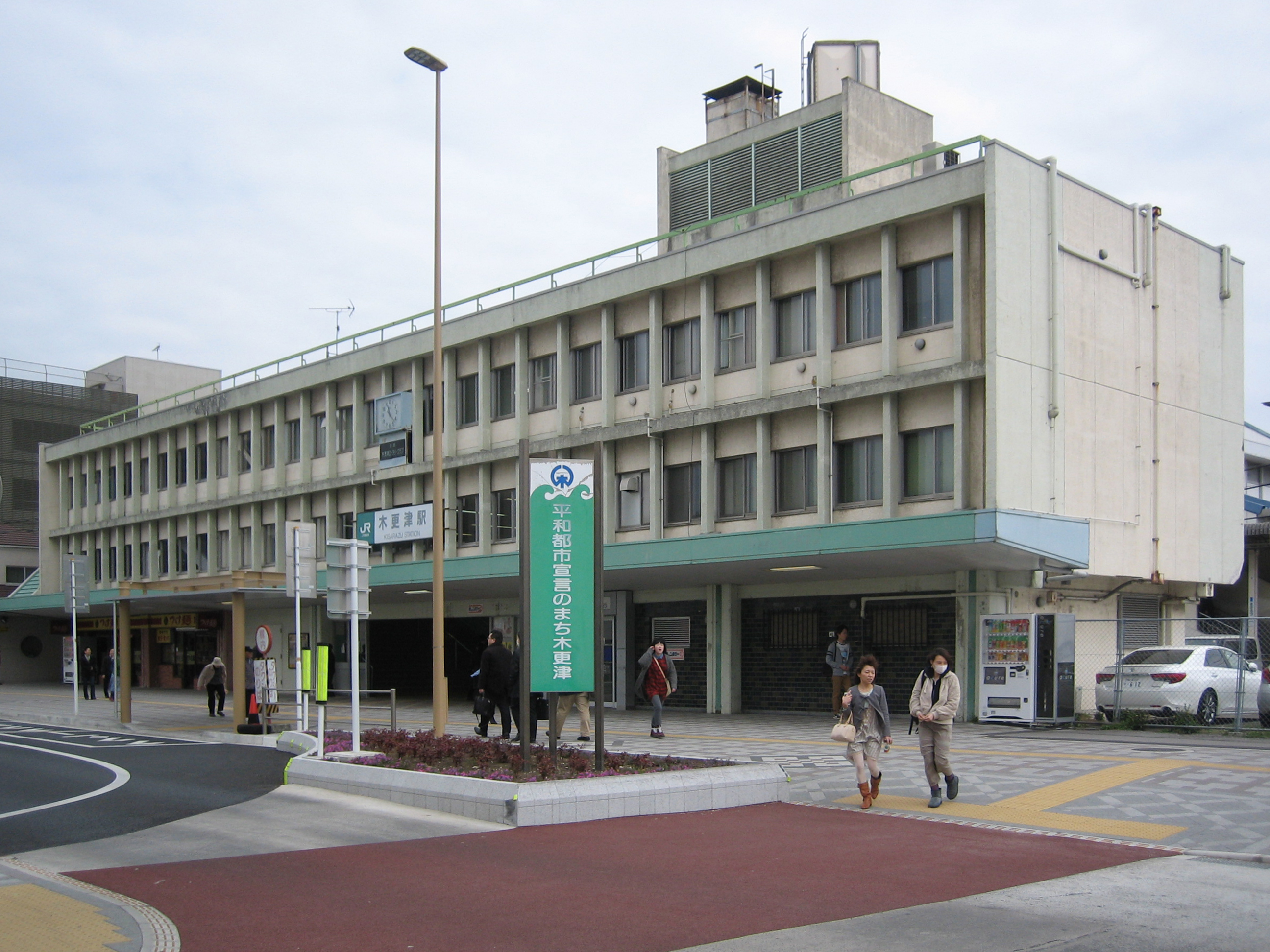 The west exit of Kisarazu Station in Kisarazu, Chiba, Japan